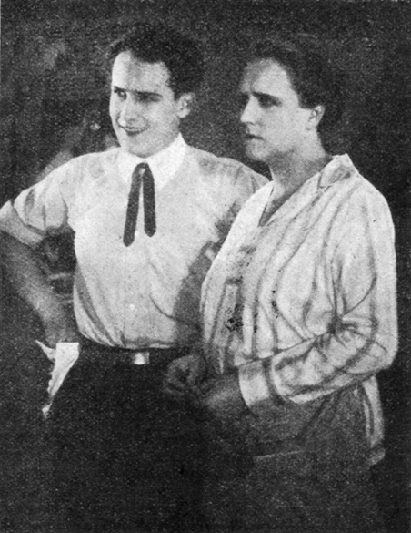 Ríša (Petr Dolan = Jiří Voskovec) and Landlady (Božena Svobodová) in the movie "Pohádka máje" (1926, directed by Karl Anton)